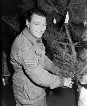 Sergeant Rayene Stewart Simpson decorating a Christmas tree in Korea, 1953. Simpson was later decorated with the Victoria Cross while serving with the Australian Army Training Team Vietnam in 1969.